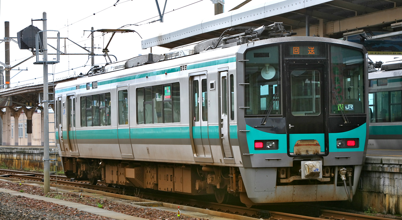 JR West 125 series EMU car KuMoHa 125-16 at Tsuruga Station